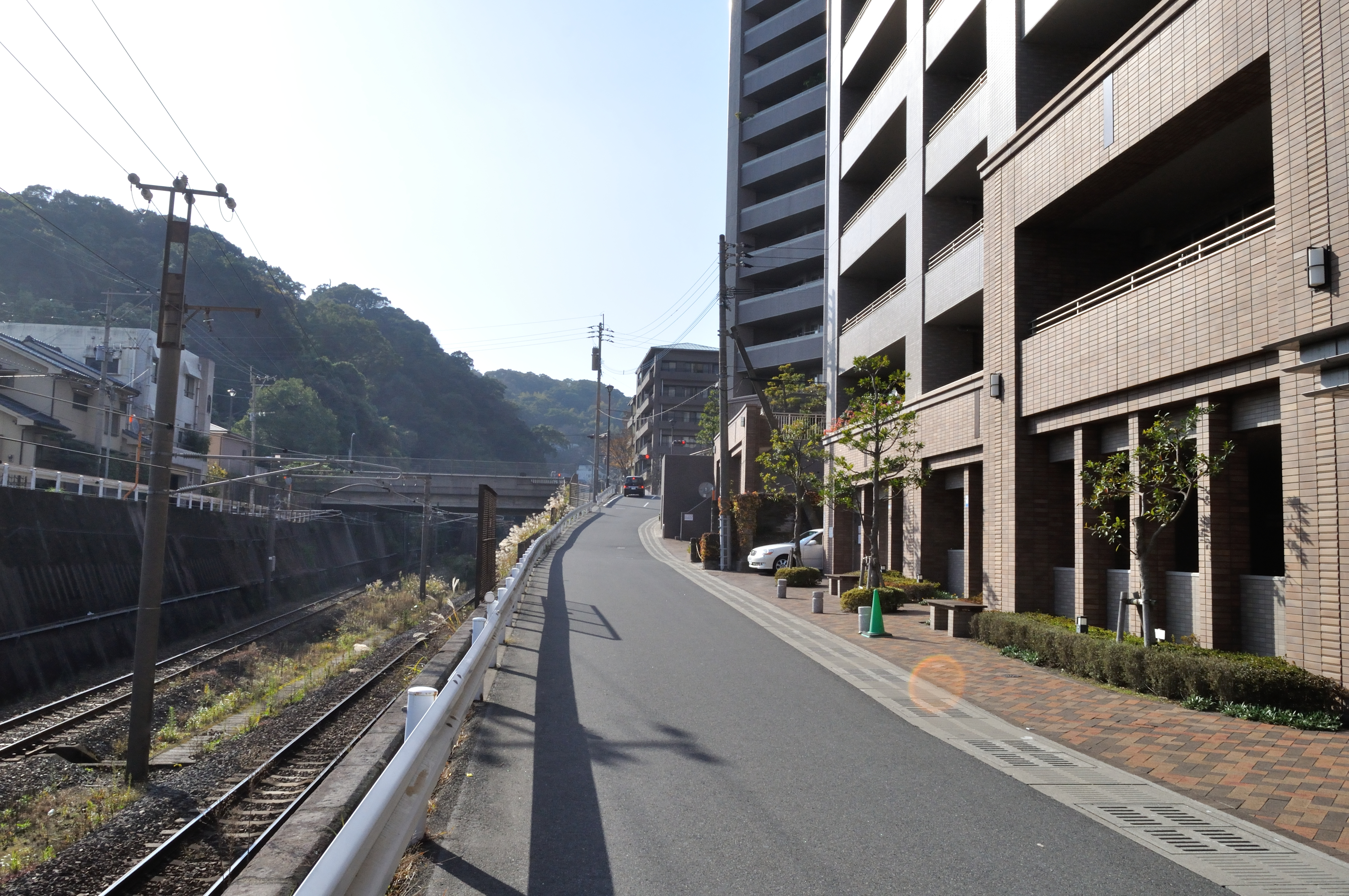 Looking up Shiroyama from the deathplace of Saigō Takamori.